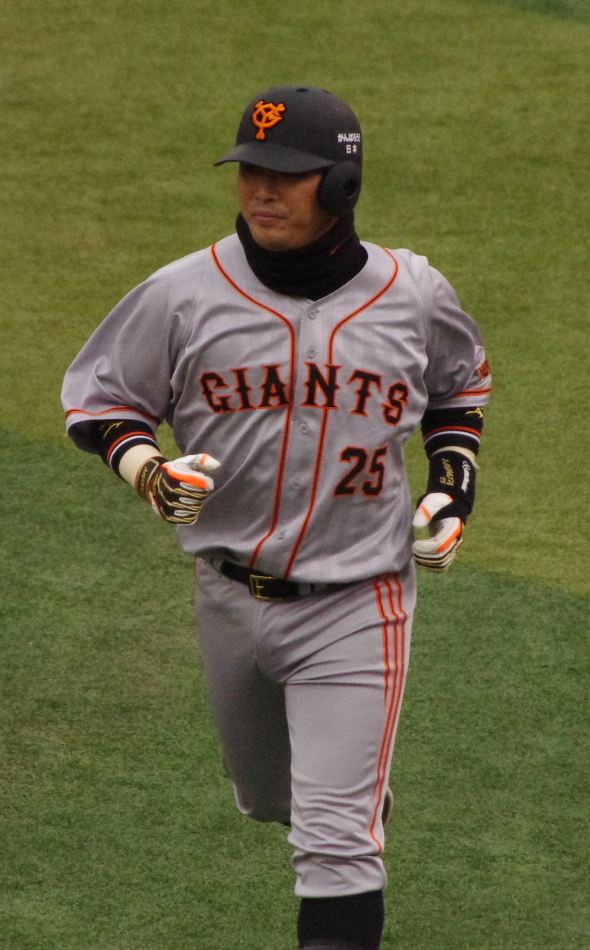 Shuichi Murata, infielder of the Yomiuri Giants, at Yokohama Stadium.